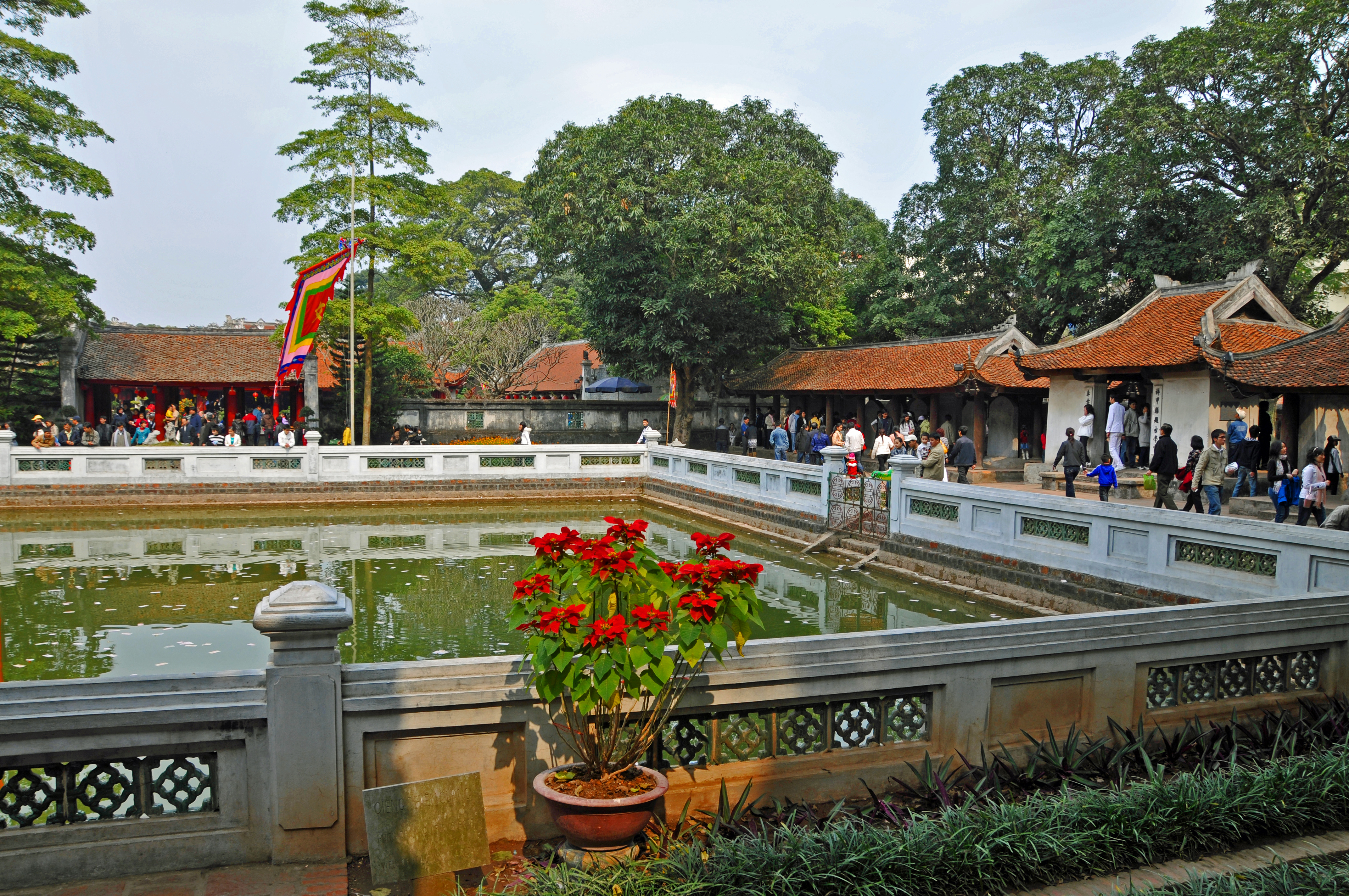 Khuc Van Cac pavilion area. These open pavilions provided space for study and leisure. Thien Quang Tinh pond in front. The Temple of Literature ( Van Mieu ), dedicated to Confucius, was founded in 1070 by Emperor Ly Thanh Tong. In 1076, Vietnam's first university was established here to educate Vietnam's administrative and warriors class. Parts of the university date from this earlier time period although the large complex has undergone many changes over the centuries. But recent archaeological study indicates that the architecture of this site belongs primarily to the Ly (1010-1225) and Tran (1225-1400) Dynasties. The complex is in a tranquil park-like site in the heart of central Hanoi. Vietnam